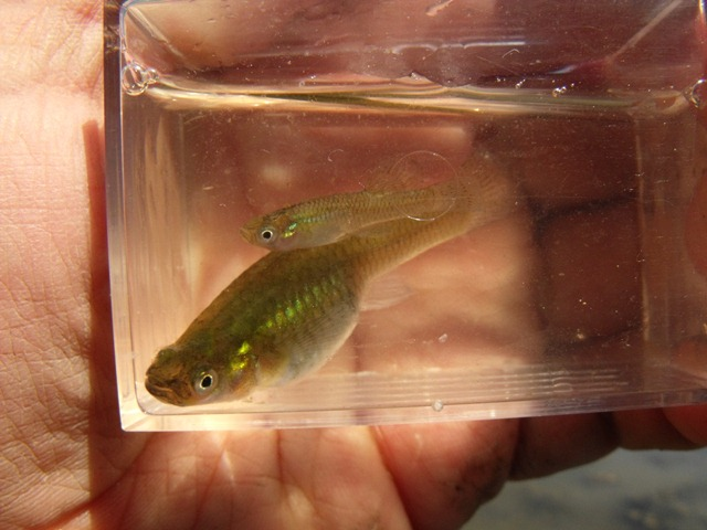 Gambusia holbrooki female and male